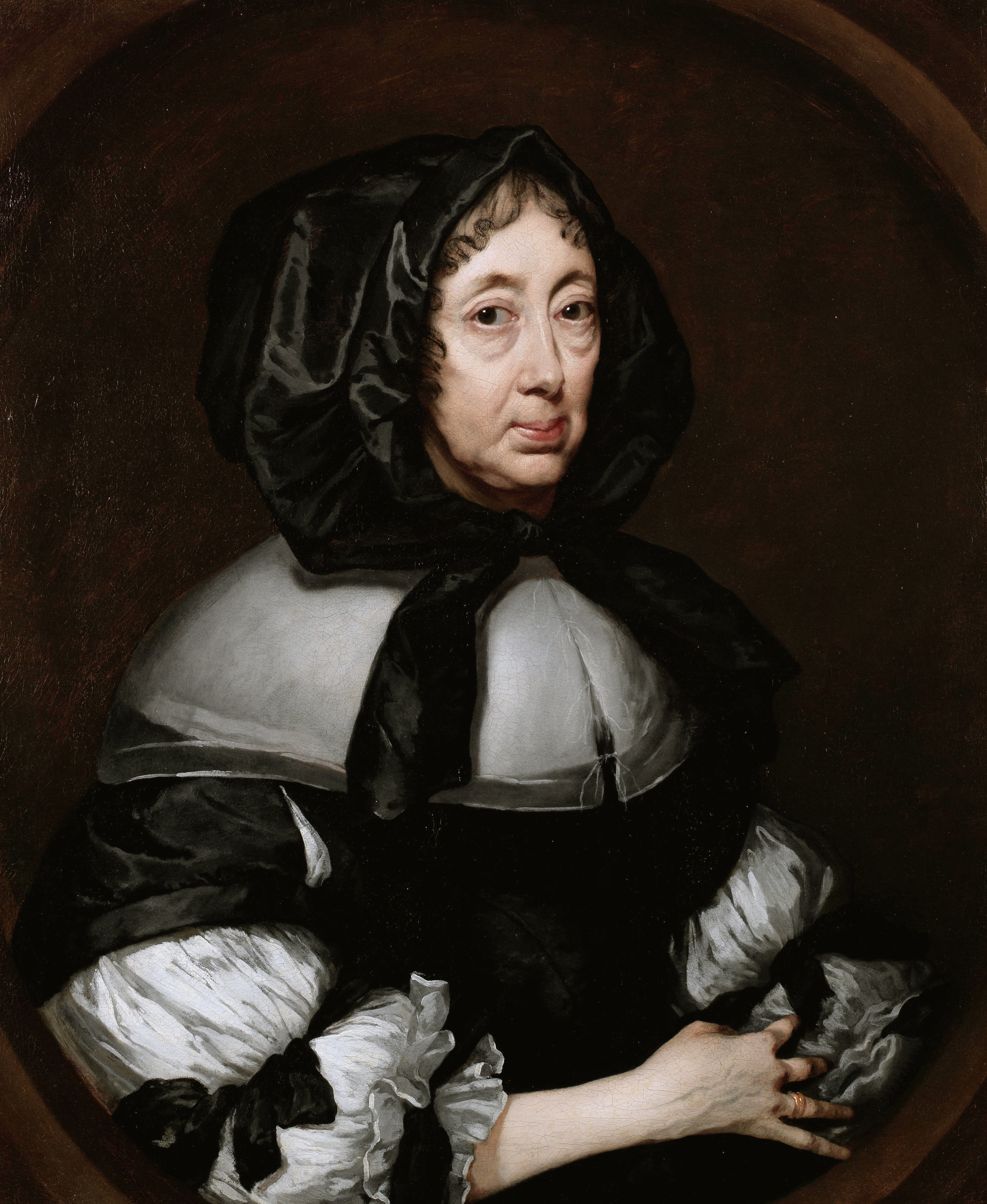 Catherine, Lady Hoby of Bisham Abbey, wife of Peregrine Hoby oil on canvas 76.3 x 64.1cm